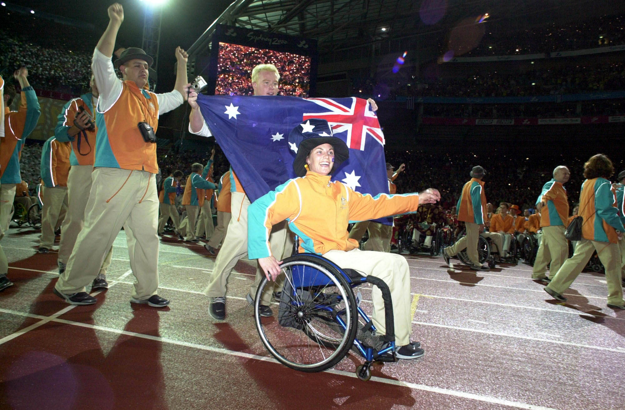 Australian wheelchair tennis player Branka Pupovac (with athlete holding the Australian flag behind her) in the Athletes Parade at the Sydney Paralympic Games Opening Ceremony